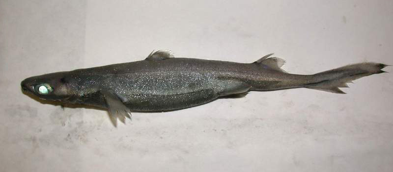 Etmopterus spinax photographed by Pierluigi Angioi.